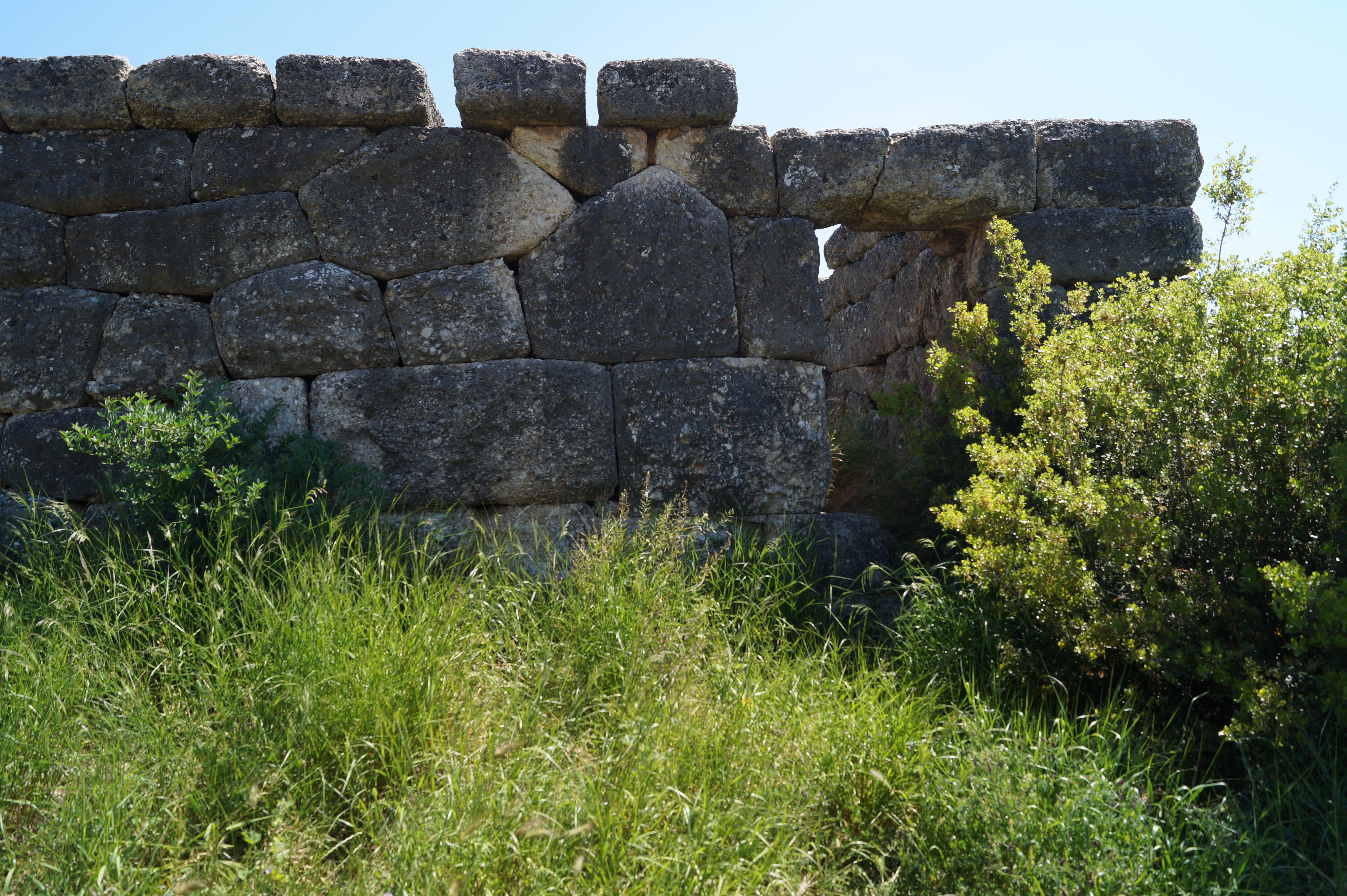 Fichti, Argolis, Greece: Entrance of Blockhouse near Nemea, view from west.